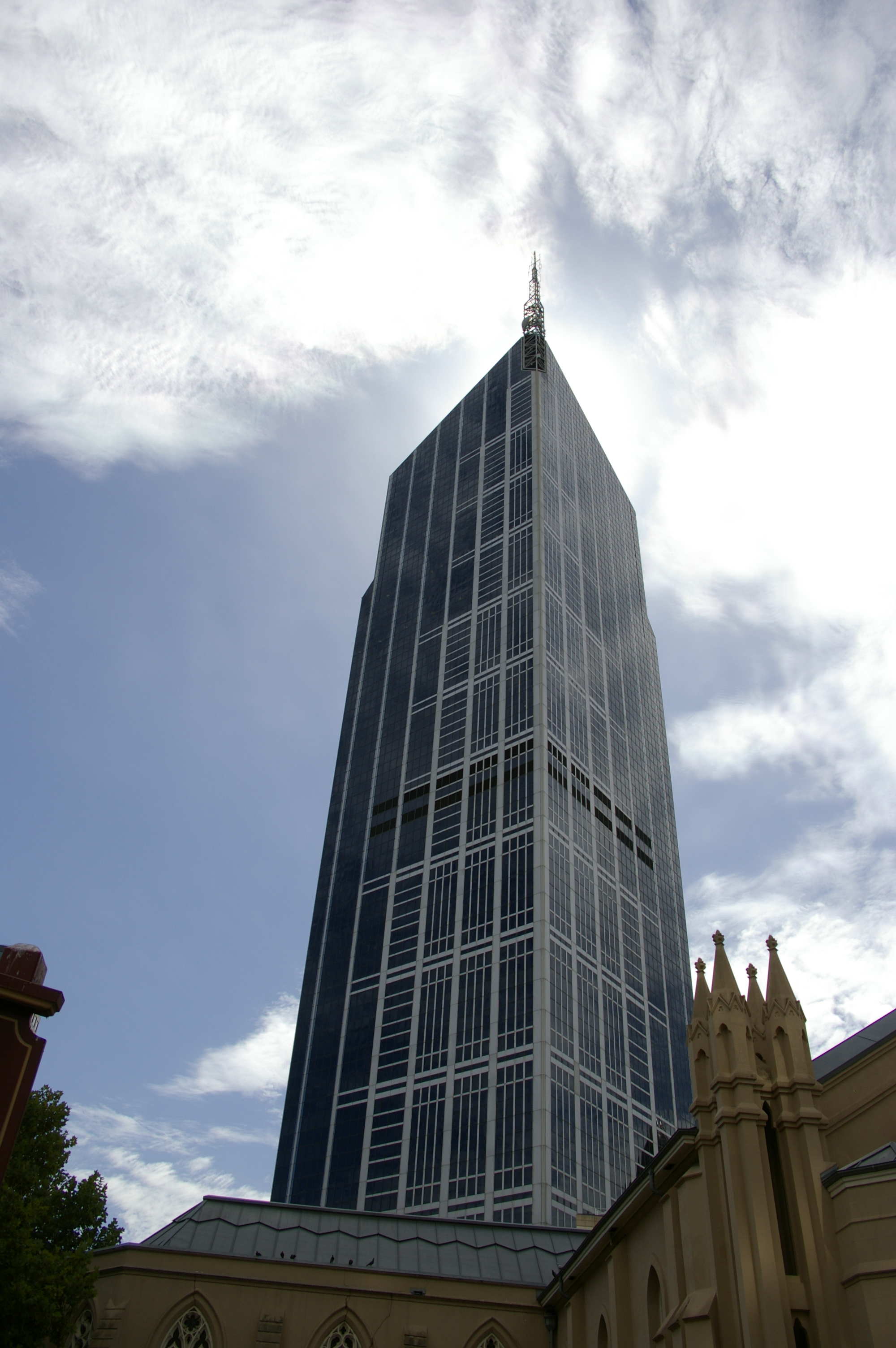 Melbourne Central Tower. Taken from Lonsdale Street